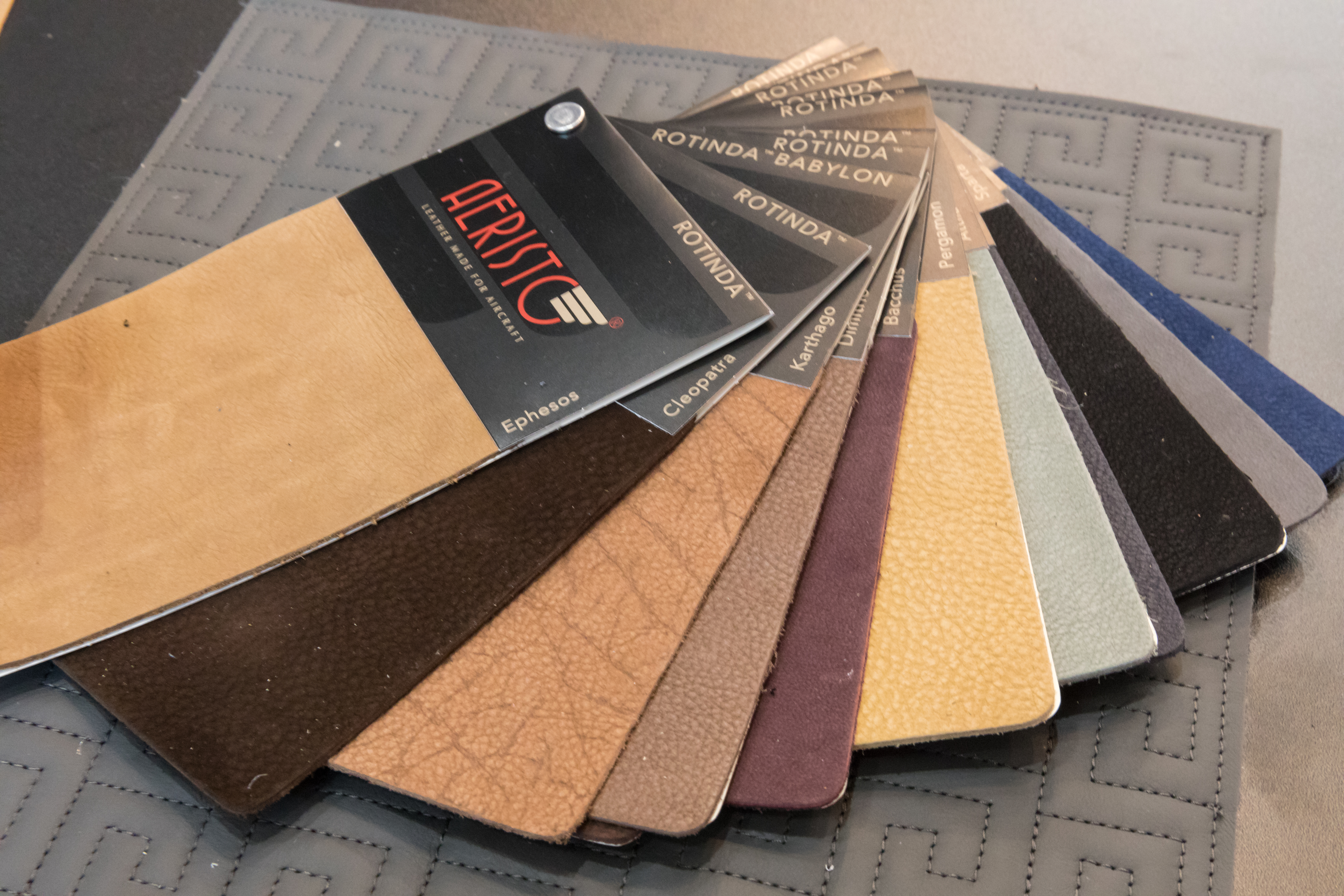 Passenger Experience Week 2018, Hamburg